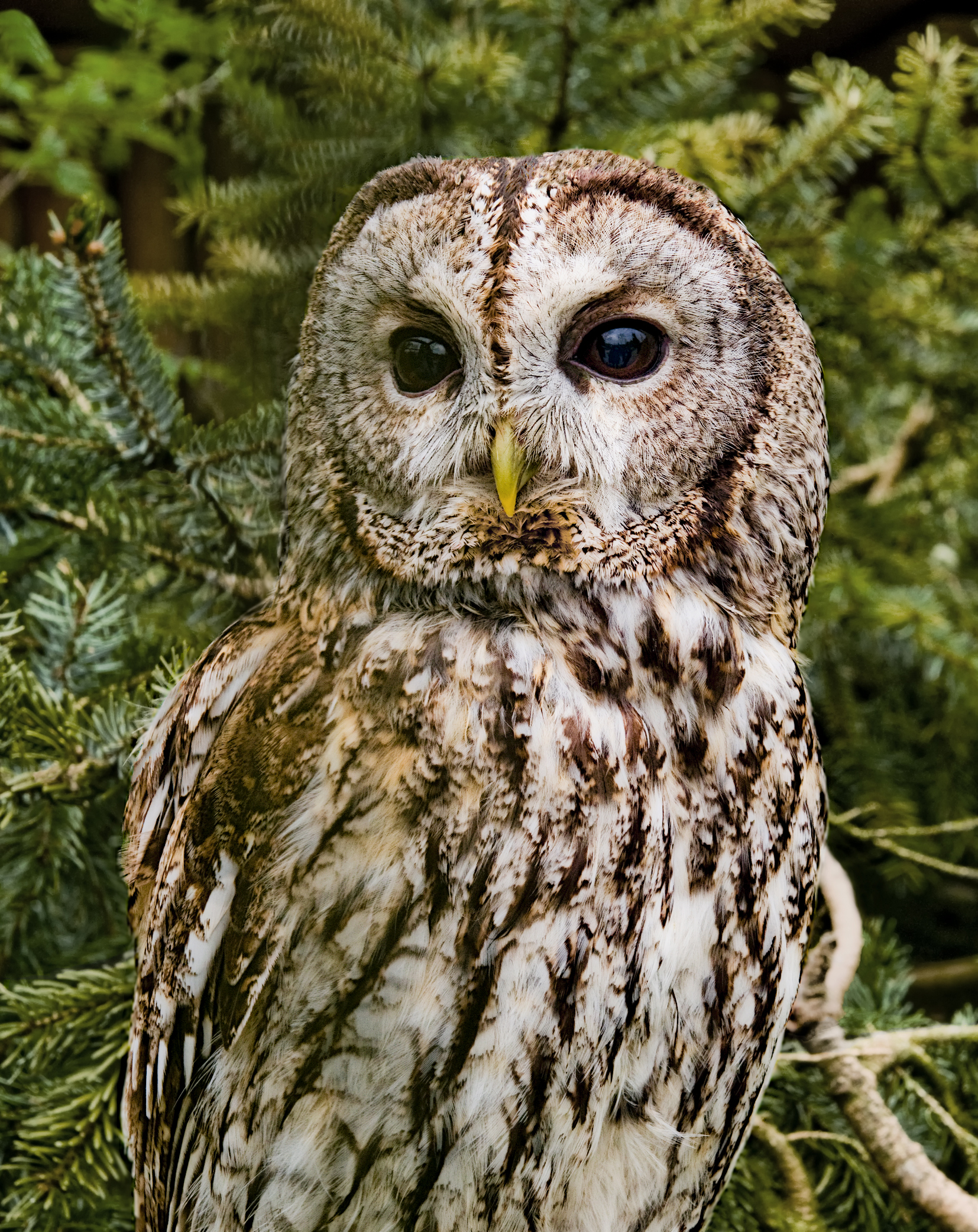 Tawny Owl in the Lüneburg Heath Wildlife Park near Nindorf, Hanstedt, Germany